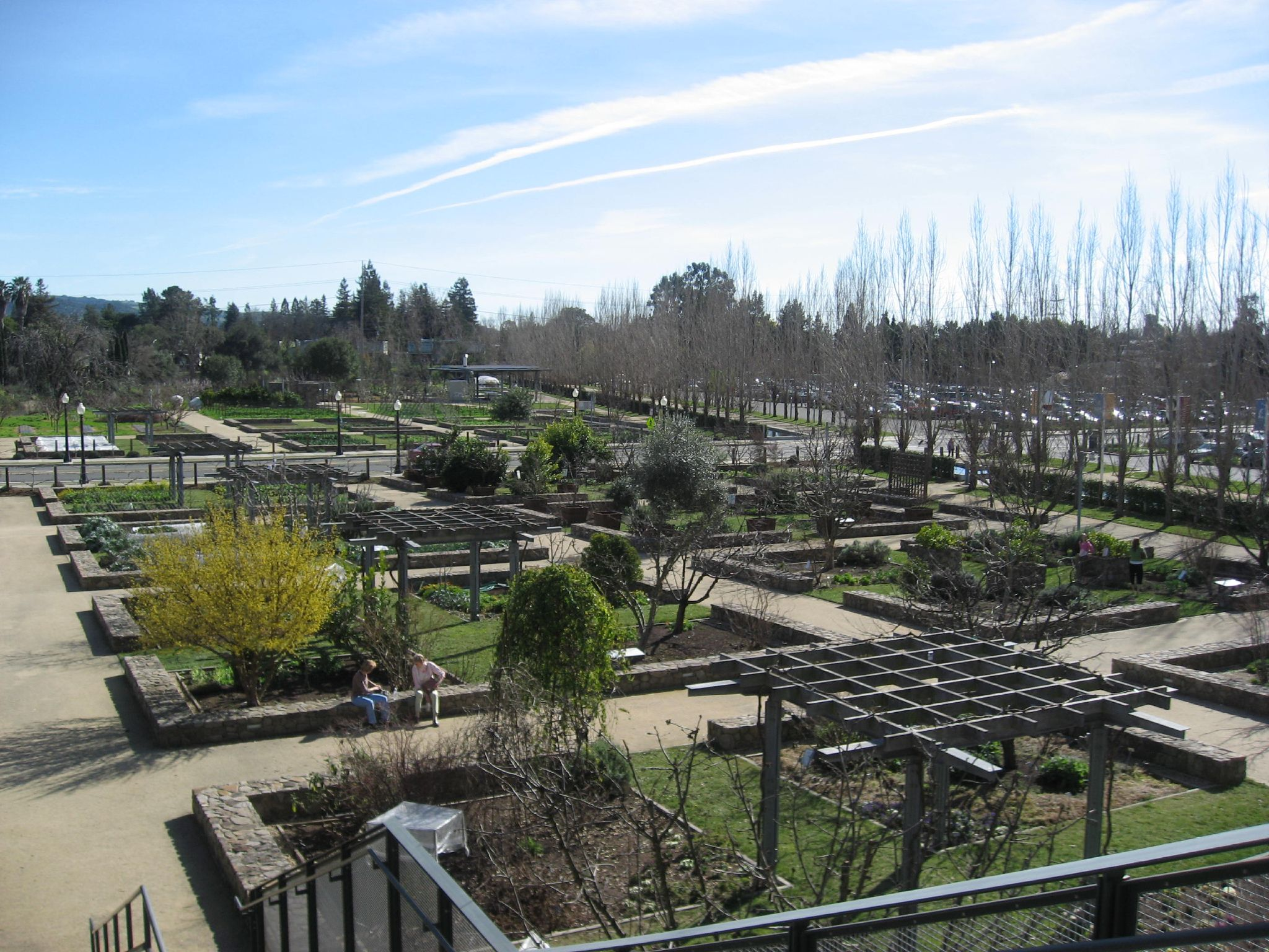 The gardens at Copia in February 2007.